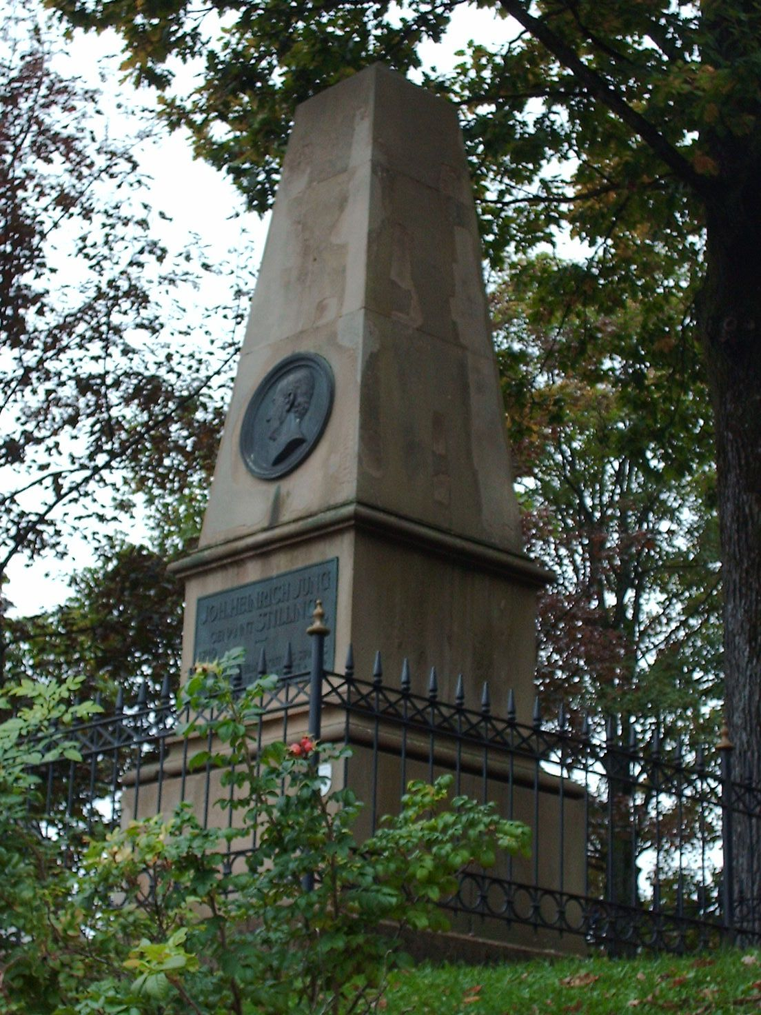 Jung-Stilling monument, Hilchenbach, Germany check usage